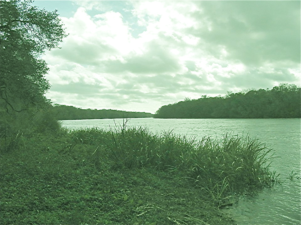 The Apalachicola River, near Fort Gadsden. Photograph by J. Williams (Jan 5, 2004).